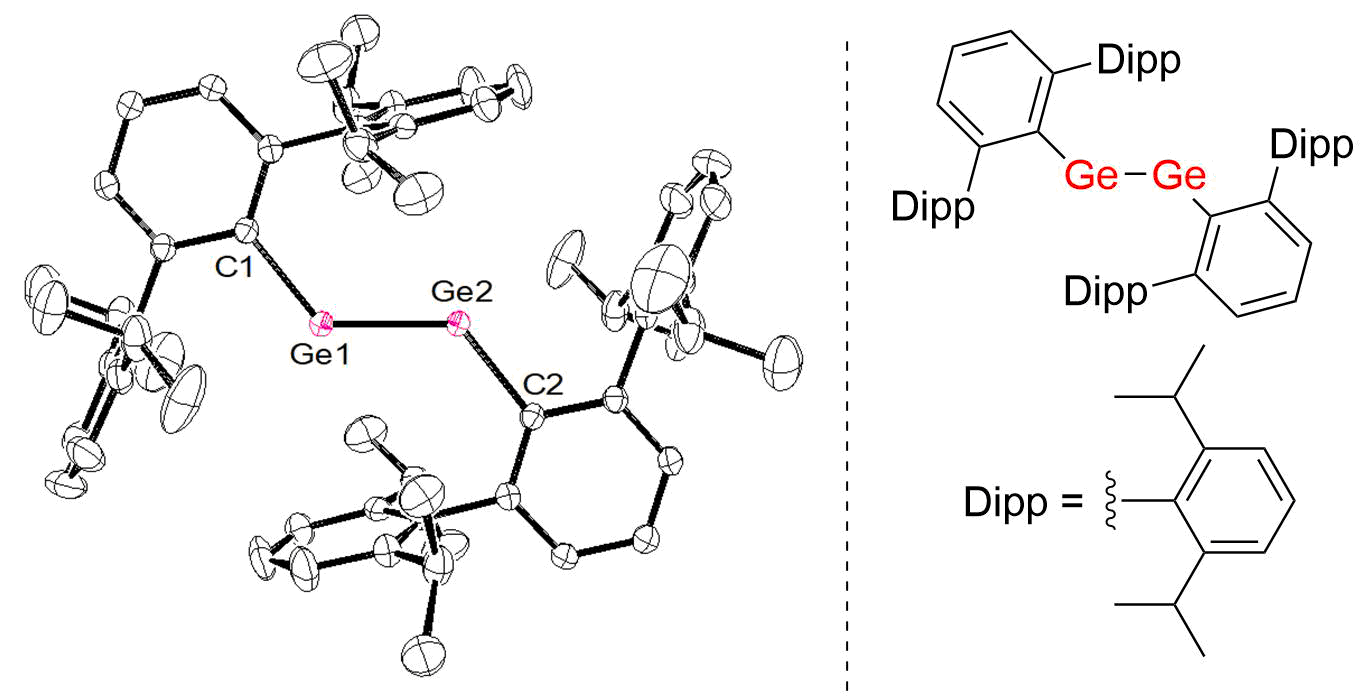 ortep and chemdraw drawing of digermyne 2,6-Dipp2H3C6GeGeC6H3-2,6-Dipp2